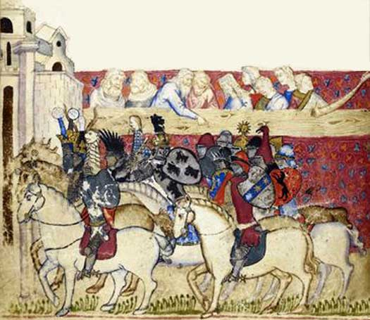 Batle by Garigliano 915 (Naples Knights)